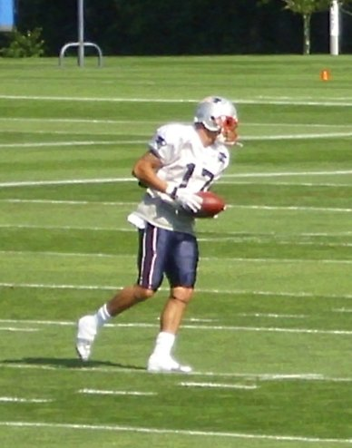 Taylor Price running a route and catching a pass during practice with the Patriots on July 29, 2010.